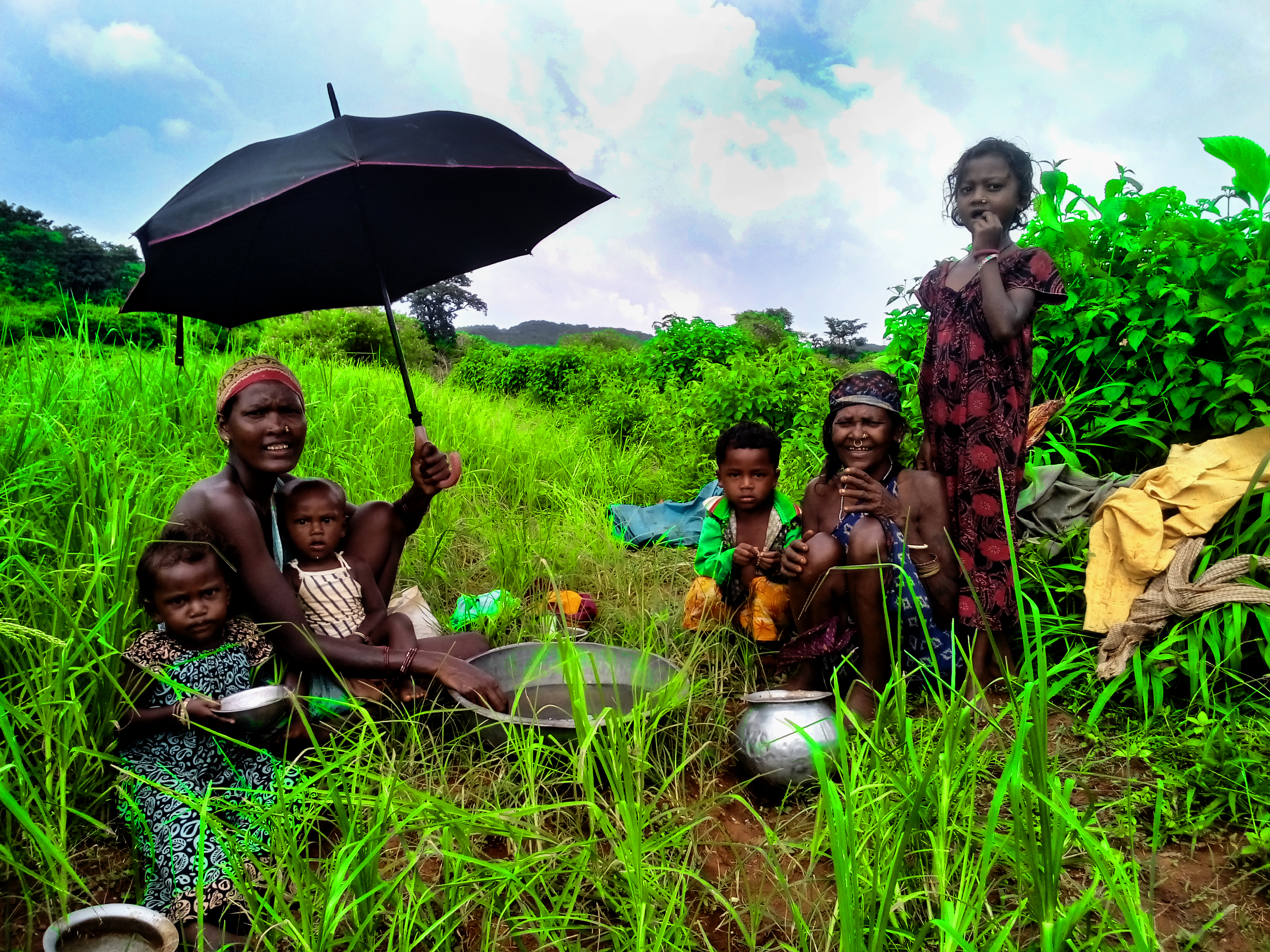 During Monsoons, Odisha's Koraput Tribe enjoys the Nature and works for Livelihood. Here, in this picture you can see the family enjoying their living in NATURE.